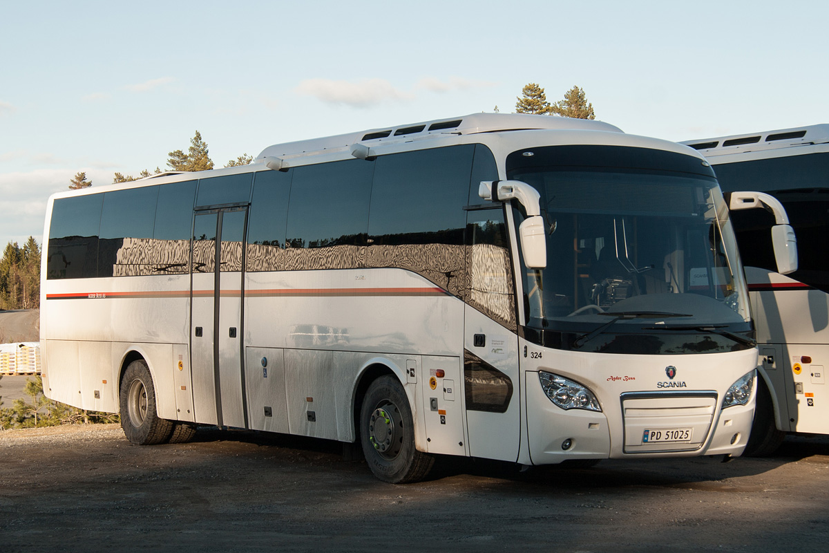 Higer A30 on Scania K 320 IB4x2NB at Brokelandsheia, Gjerstad.